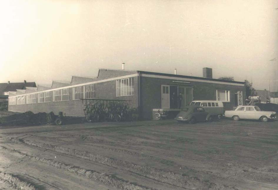 Weener Plastik in Marker Weg